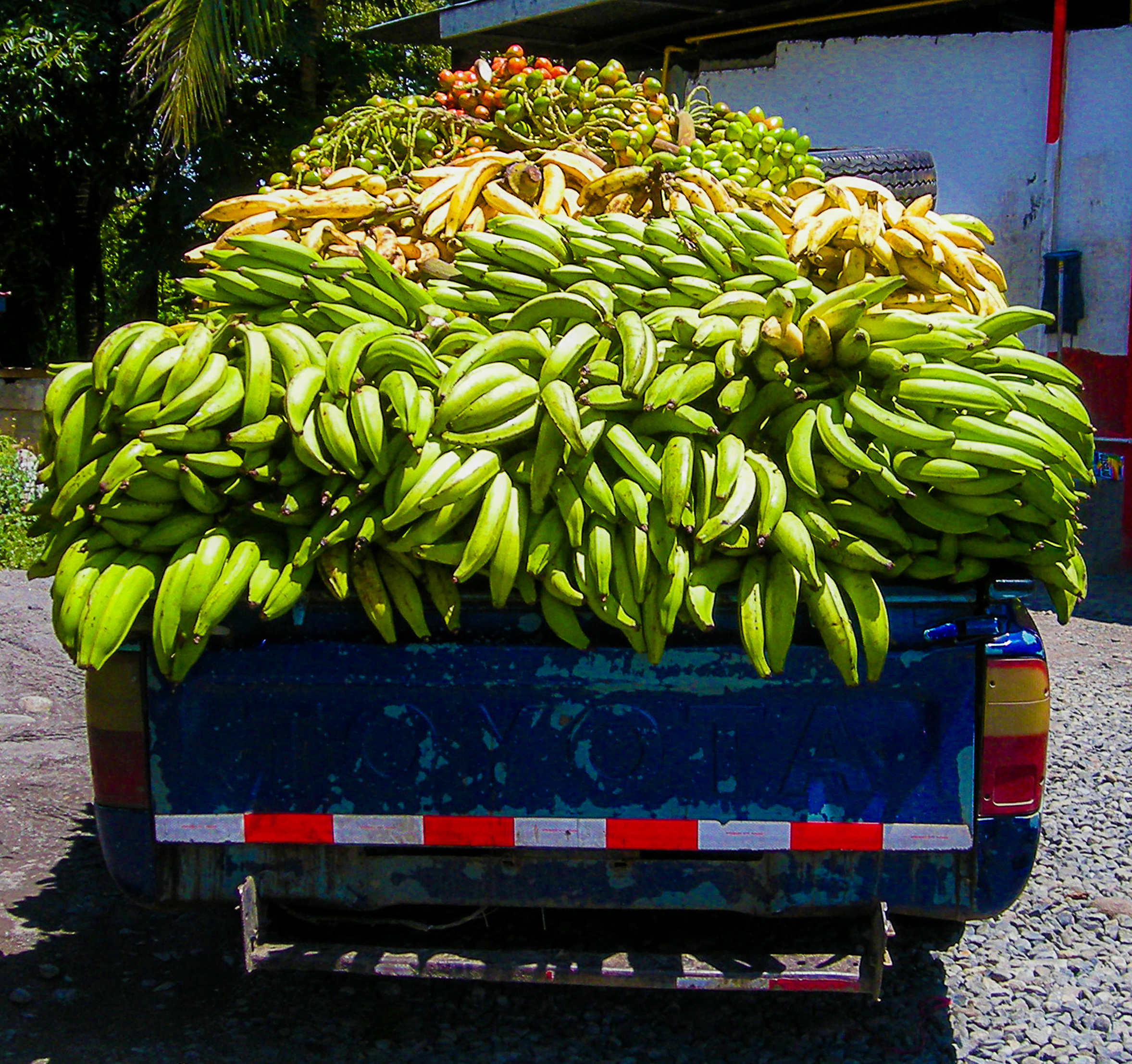 A local farmer loads up and delivers his bananas to various markets.